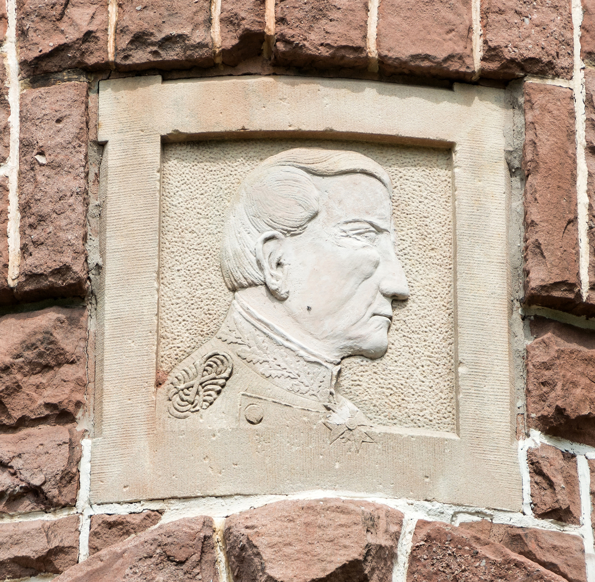 Observation tower on Góra Wszystkich Świętych, bas-relief with the image of Helmut Karl Bernhard von Moltke